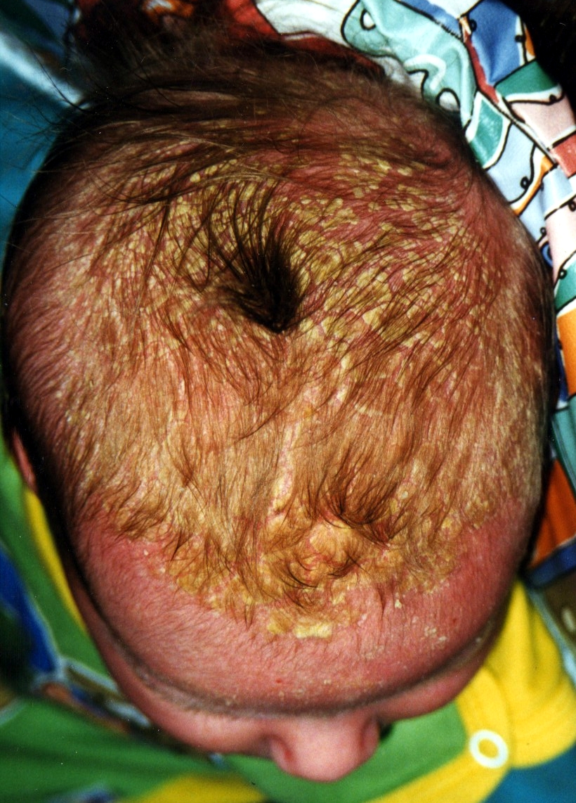 Infant (2 months old) with cradle cap